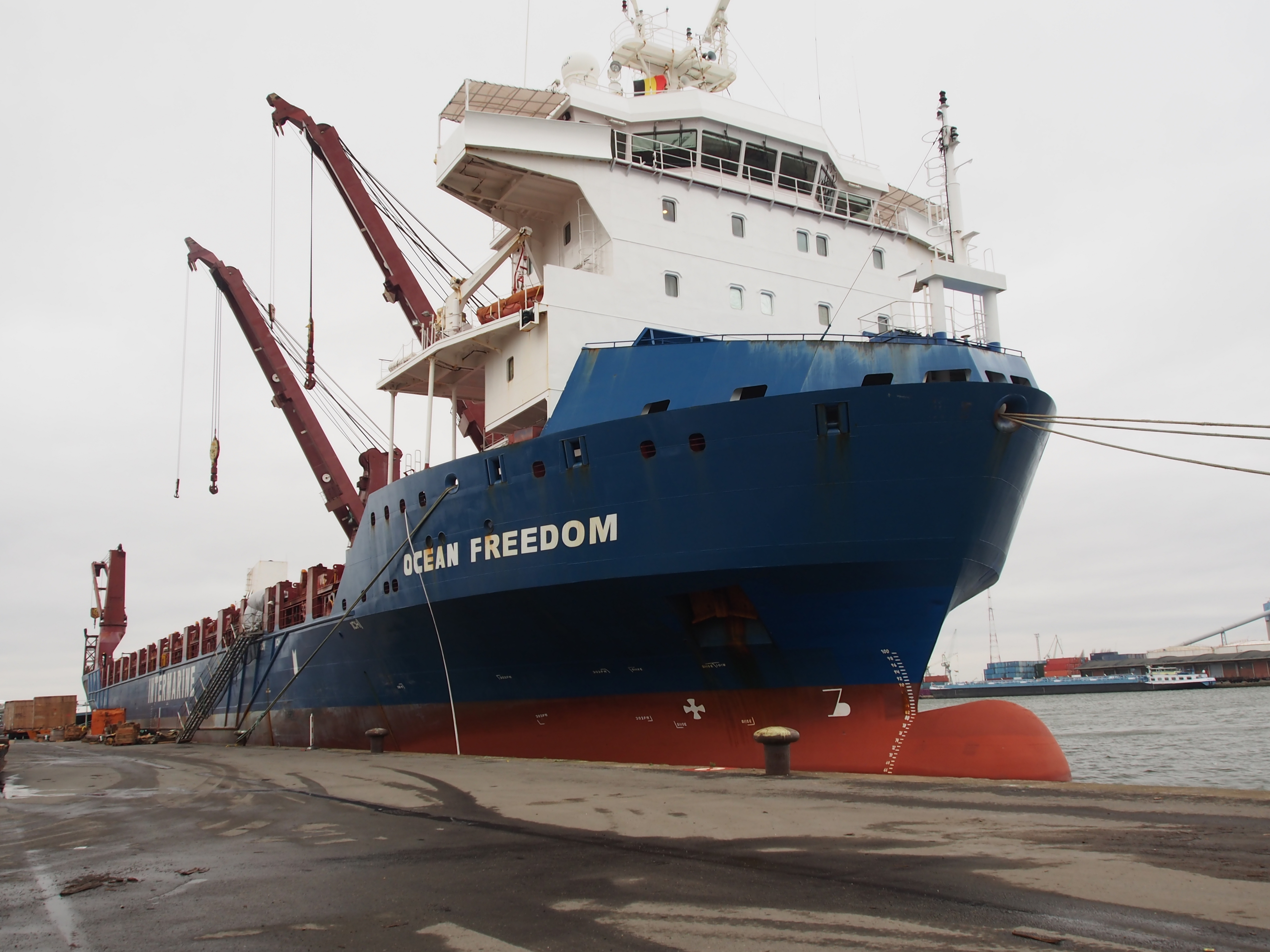 Ocean Freedom (ship, 2010) IMO 9506722 Vijfde havendok Port of Antwerp.